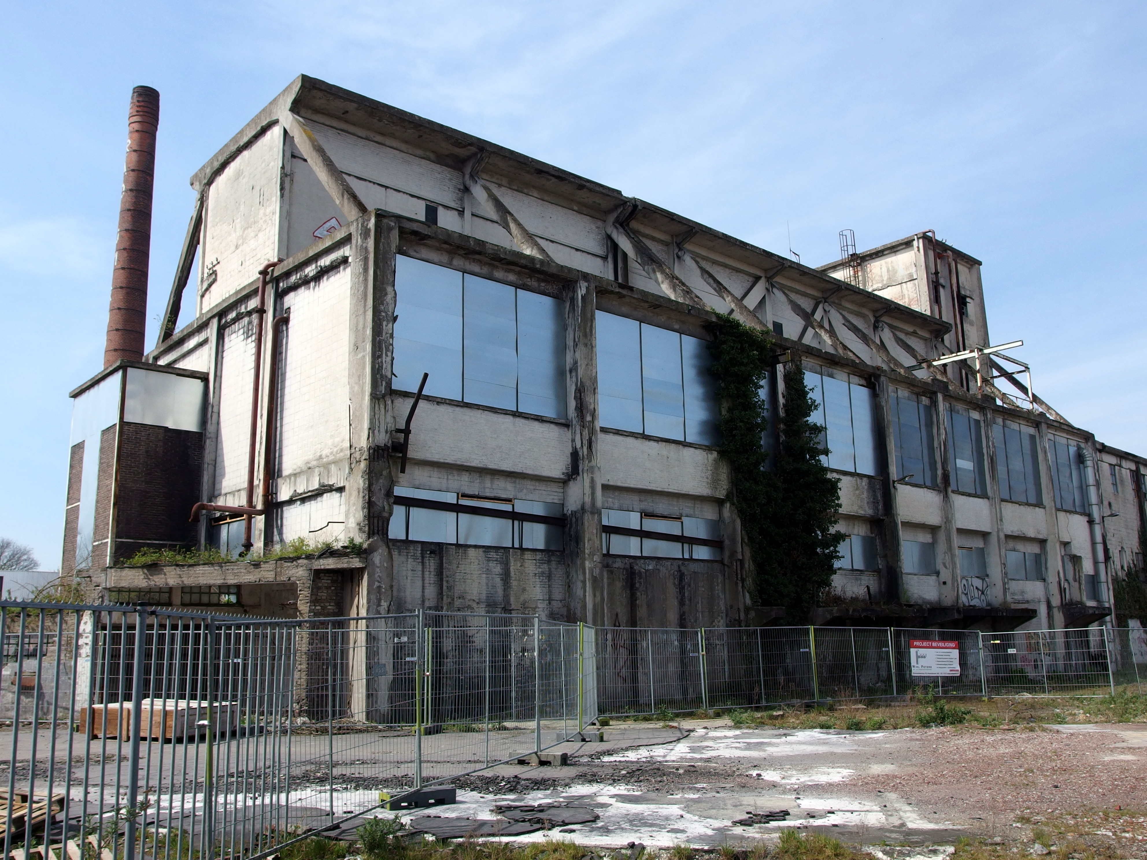 20150519 Maastricht; cokesfabriek.